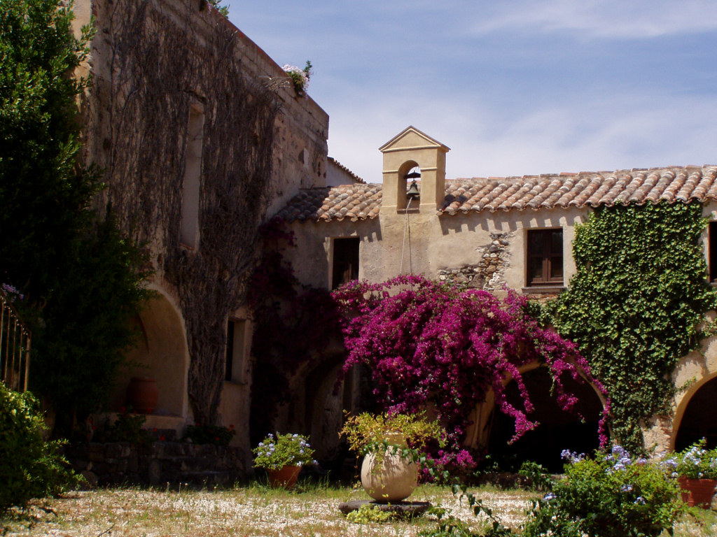 A yard of an abbey (?) in Orosei, Sardinia, Italy